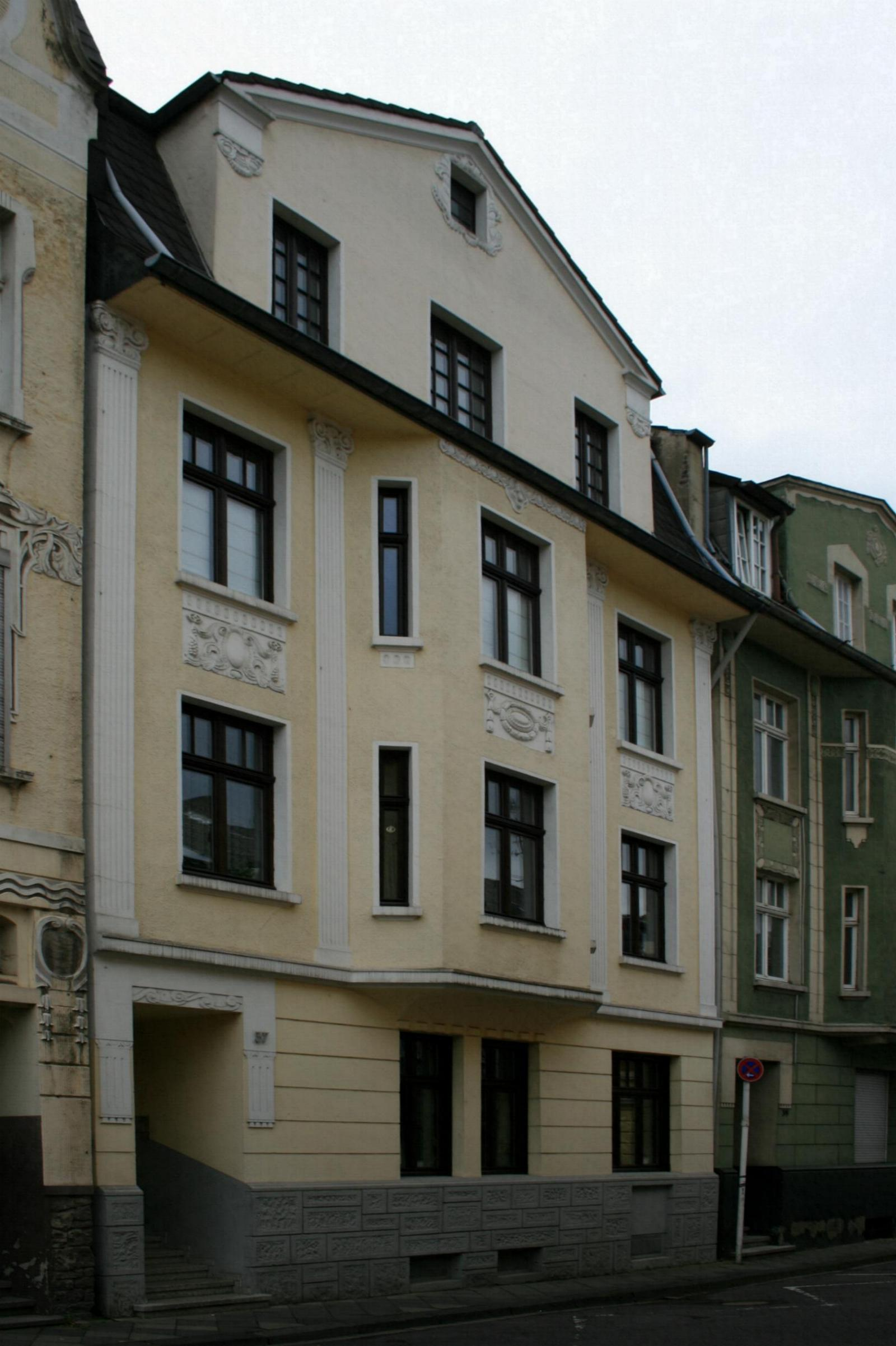 Cultural heritage monument No. G 032 in Mönchengladbach